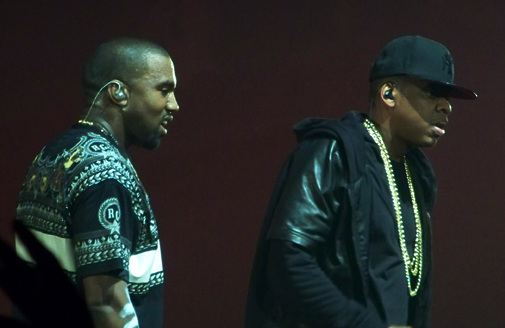 Kanye West and Jay-Z performing at Staples Center on December 11, 2011 in Los Angeles on their Watch the Throne Tour.